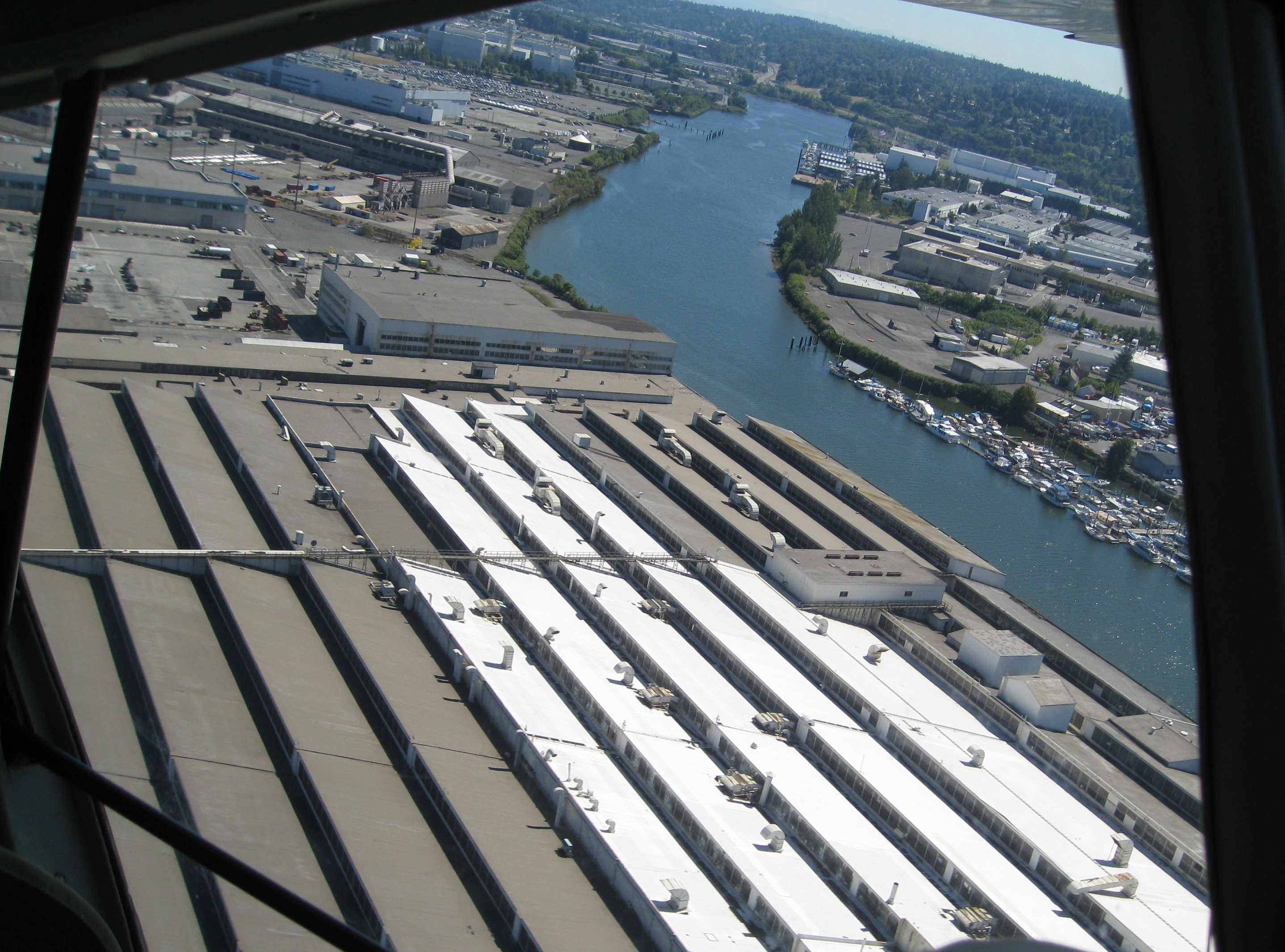 Over Boeing Plant 2 and Duwamish